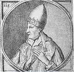 A lithography of Pope Benedict IV, made before 1923